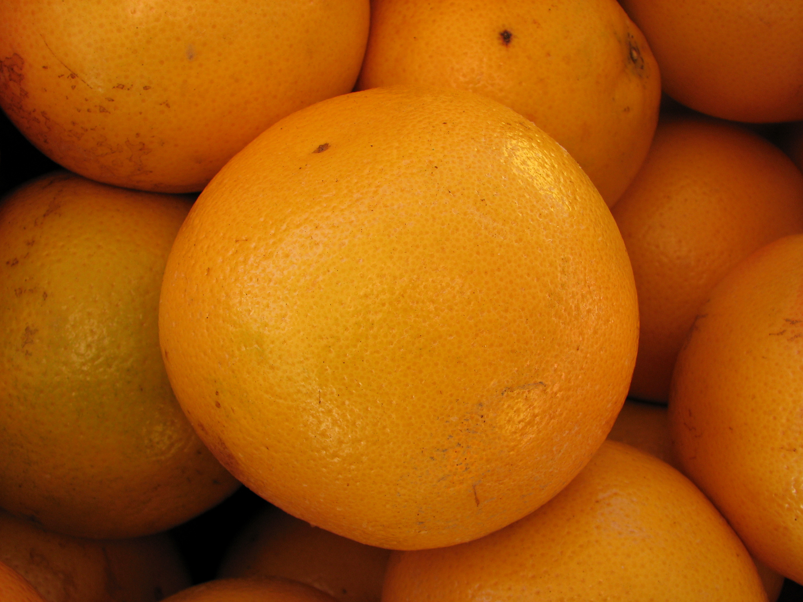 A Florida grapefruit.